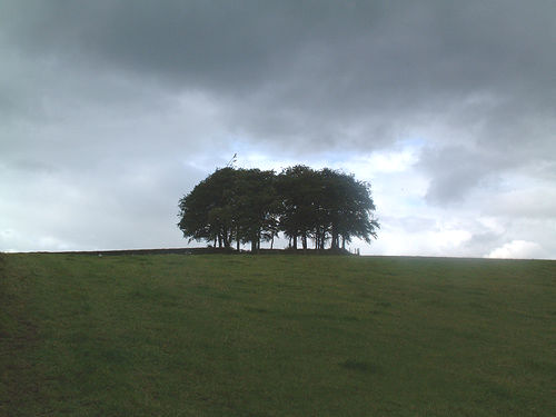 Raith earthworks outside the village of Castledawson, Co Derry, N. Ireland. Taken by Mark McCann, 2004